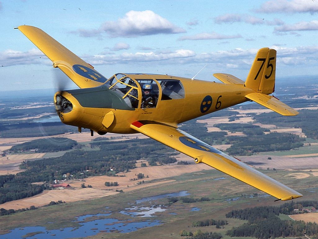 Saab 91C, Swedish Air Force designation: Sk 50C